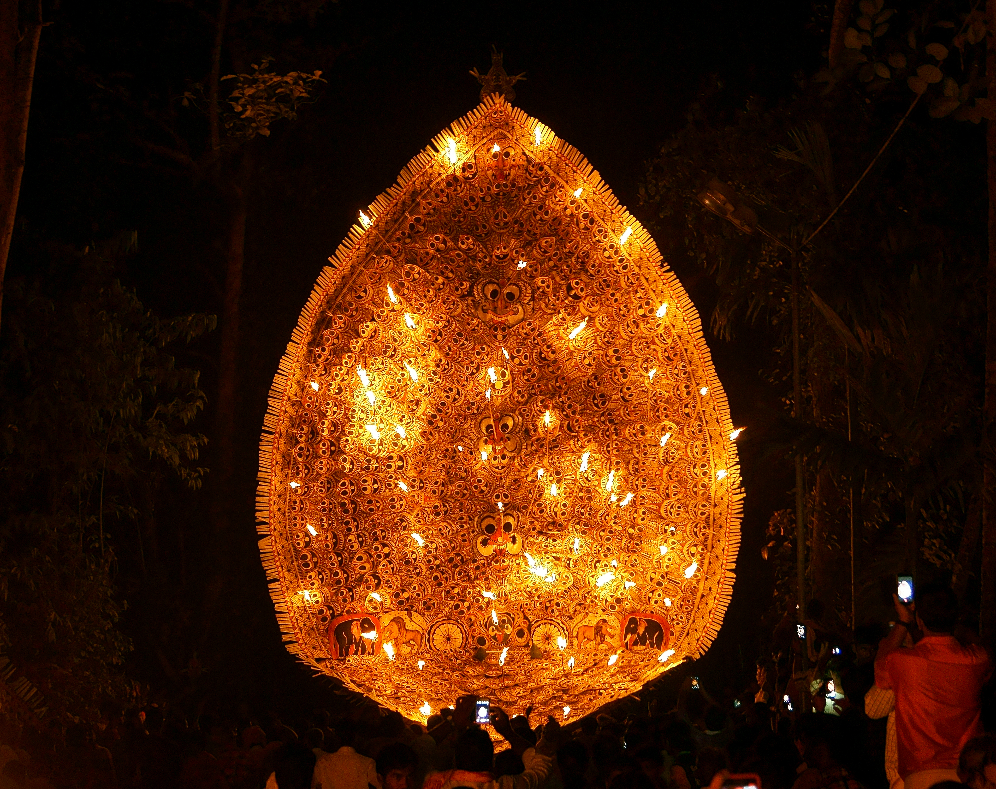 Padayani is a ritual dance performed in the Kaali temples during the Malayalam months of Meenam (Marchl). The ten-day annual Othara Padayani is held at the Puthukulangara Devi Temple, Othara, in Pathanamthitta district, Kerala state in India. The festivities would go on for ten days, which is marked with the performance of the ritual art form of Padayani. The appearance of the Bhairavi Kolam made of 1001 painted areca nut fronds on the last day, is the most impressive of sights during this festival.